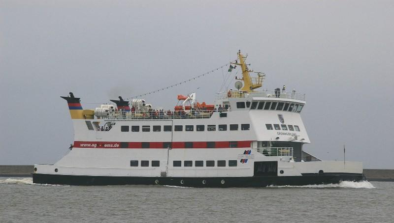 Borkum